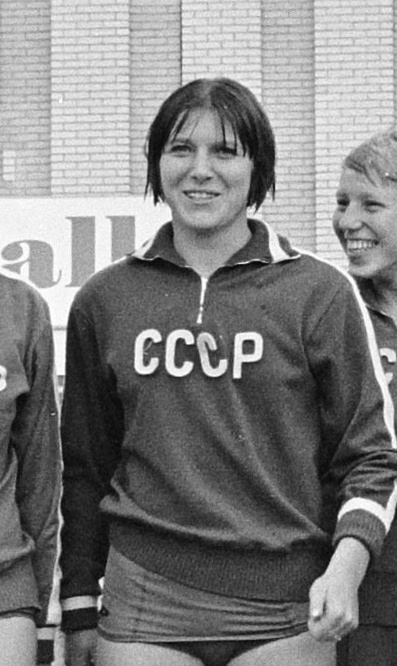 4x100 freestyle women podium, 1966 Europoean Championships Natalya Sipchenko